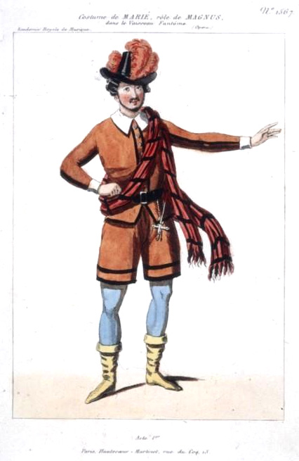 Costume design for Marié (Mécène Marié de l'Isle} in the role of Magnus in Le vaisseaux fantôme, opera in two acts by Pierre-Louis Dietsch